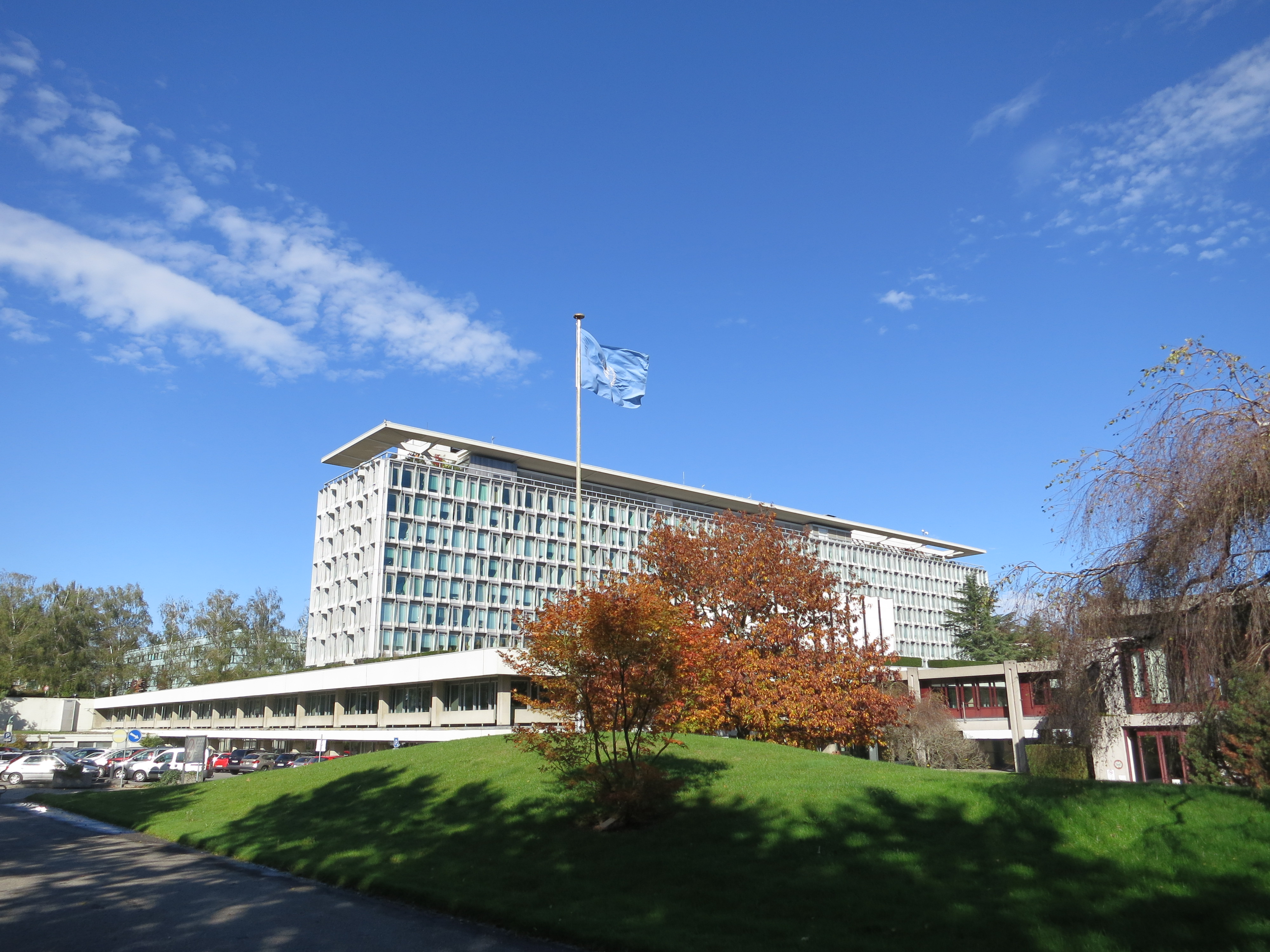 WHO HQ main building, Geneva from Southwest